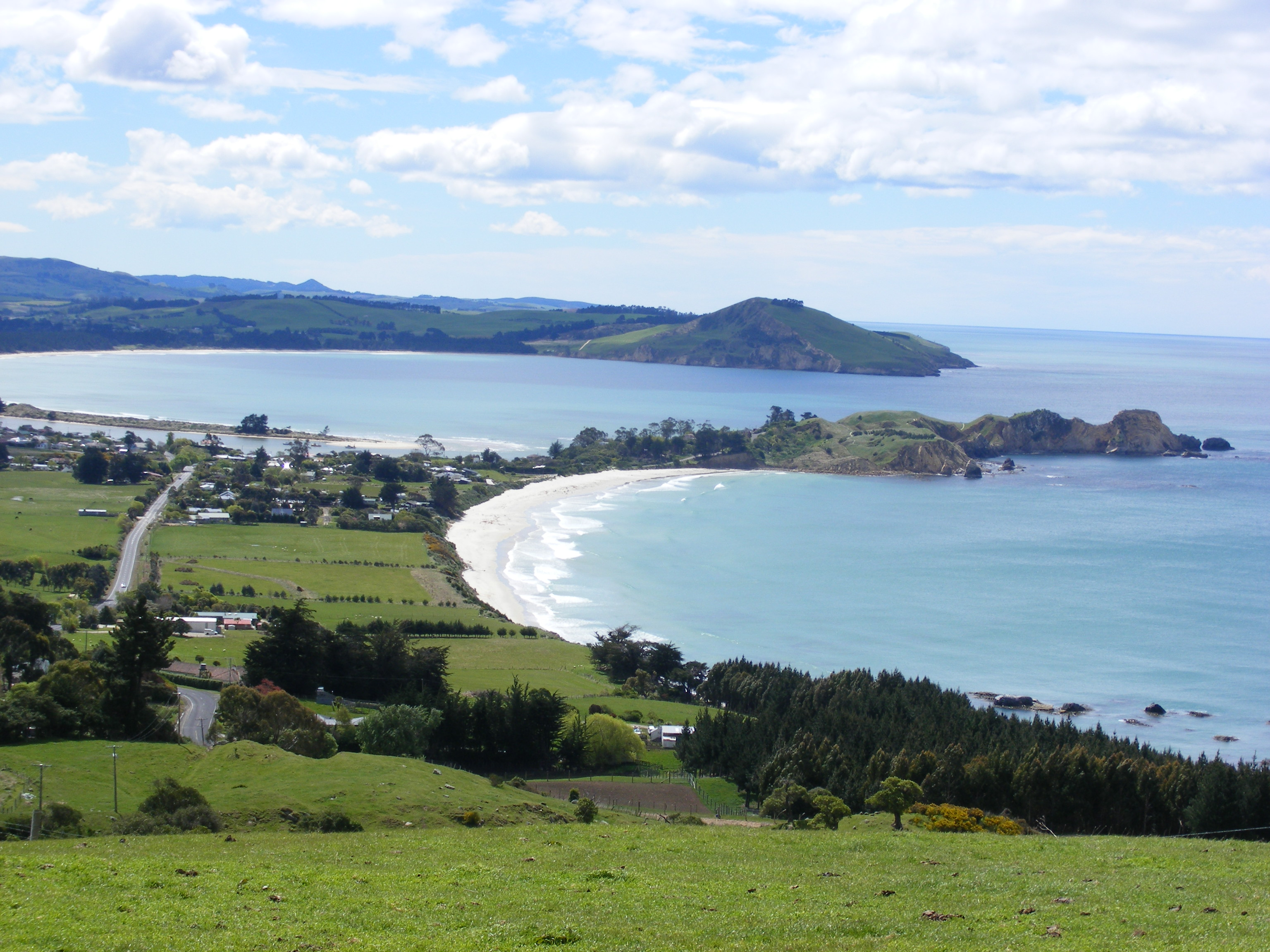 Pā Karitane Dunedin Huriawa Peninsula